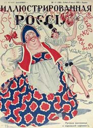 Cover of the magazine Illustrated Russia. Paris. 1929